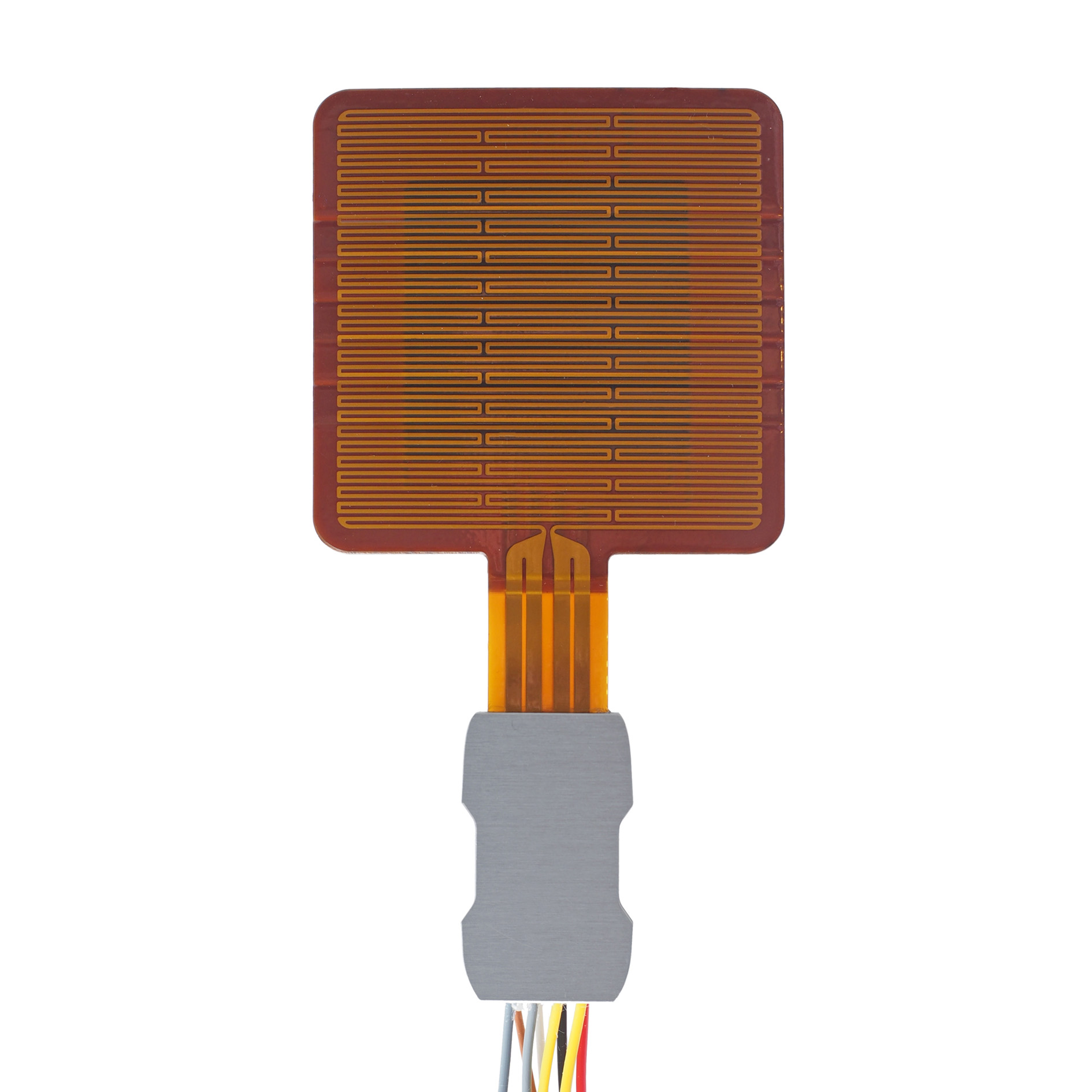 Thin self-calibrating heat flux sensor (Hukseflux FHF02SC)